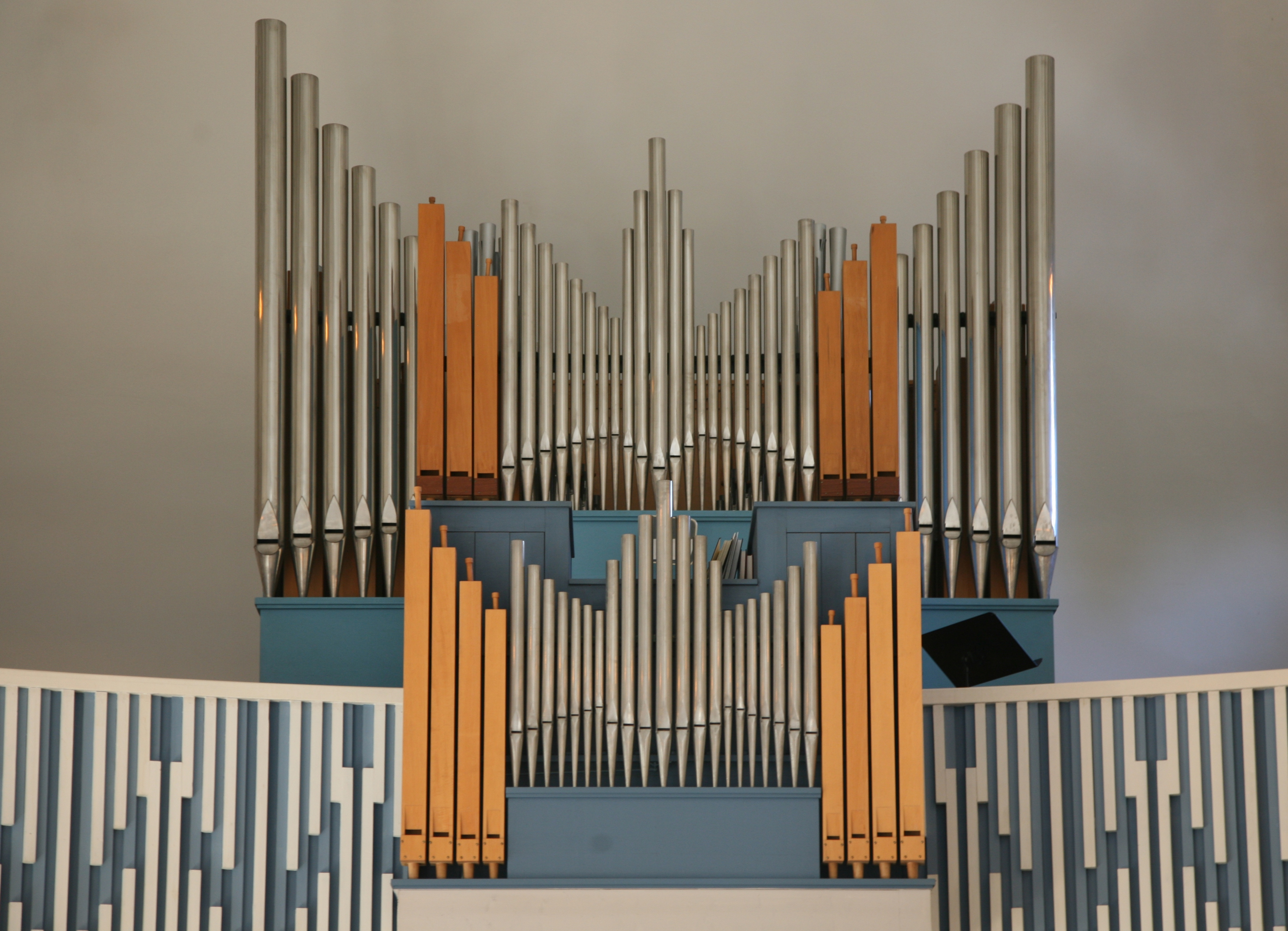 The organ Bygdøy kirke, a church in Oslo, Norway